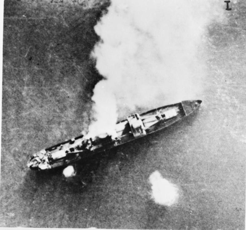 The Royal Navy during the Second World War The German supply ship ELBE burning fiercely, the effect of one hit, while other bombs are seen bursting alongside. Disguised as a Norwegian vessel, she attempted to elude patrols. Taking no notice of repeated signals from the naval aircraft which reported her, she made a hopeless attempt to escape at full speed.